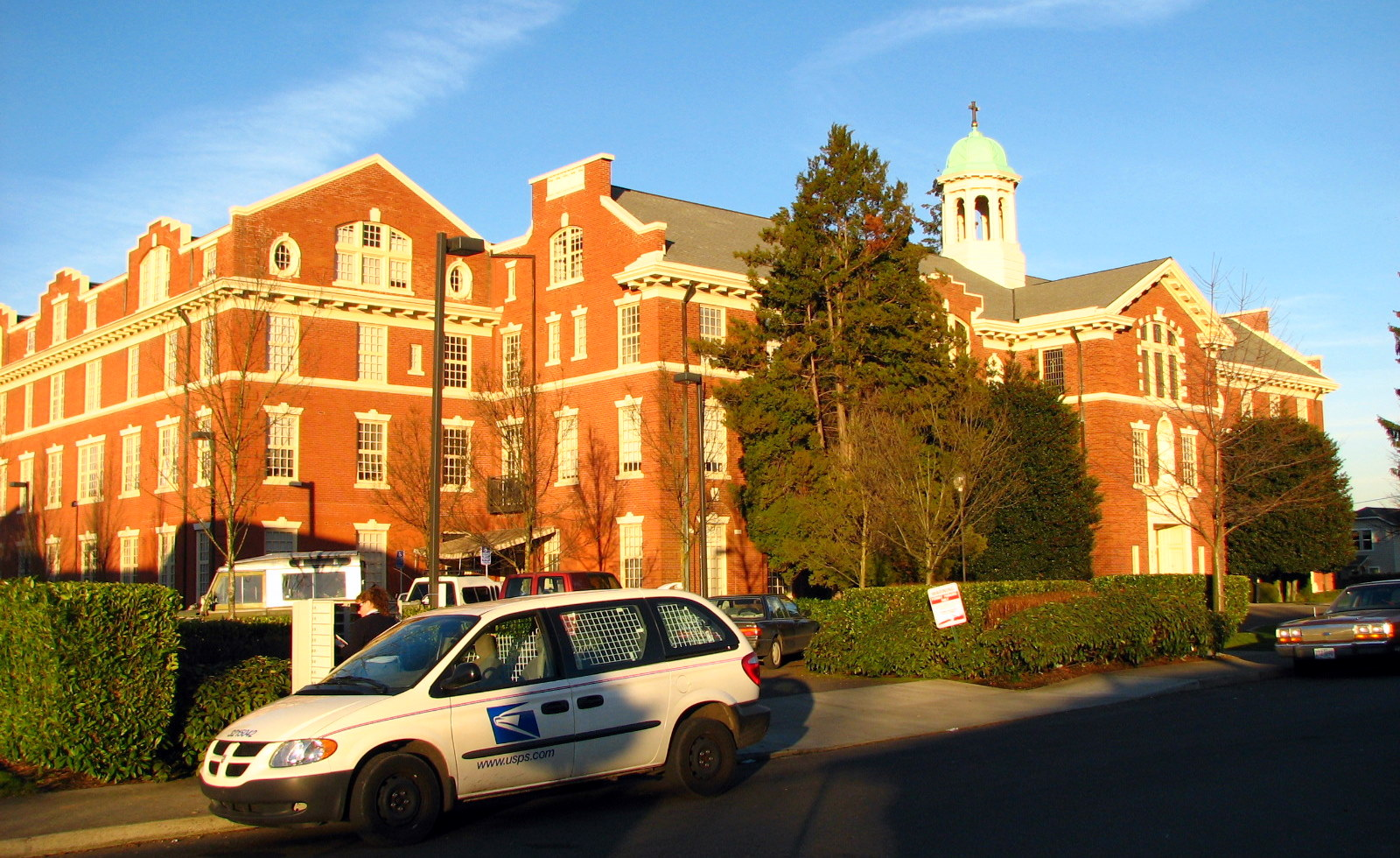 The historic Villa St. Rose (built 1917), located at 597 North Dekum Street in Portland, Oregon, United States, is listed on the US National Register of Historic Places.